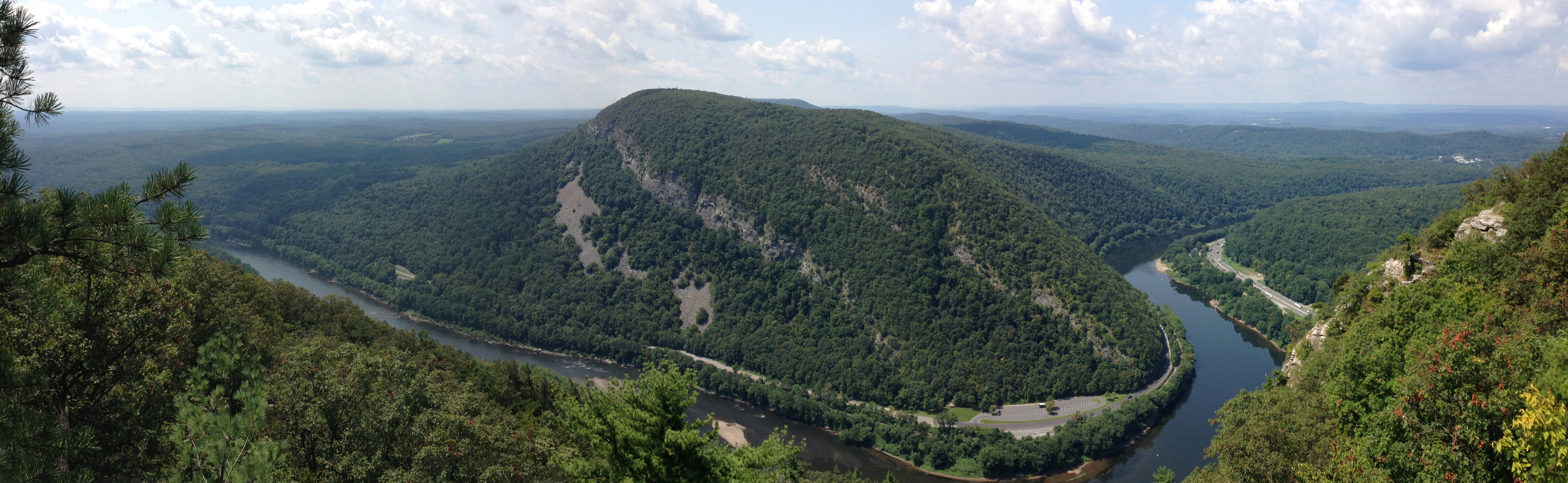 View from the rocky overlook at the end of the Mount Tammany Trail, in Worthington State Forest, New Jersey. With the Delaware River course wrapping around Mount Minsi. On August 20th 2013